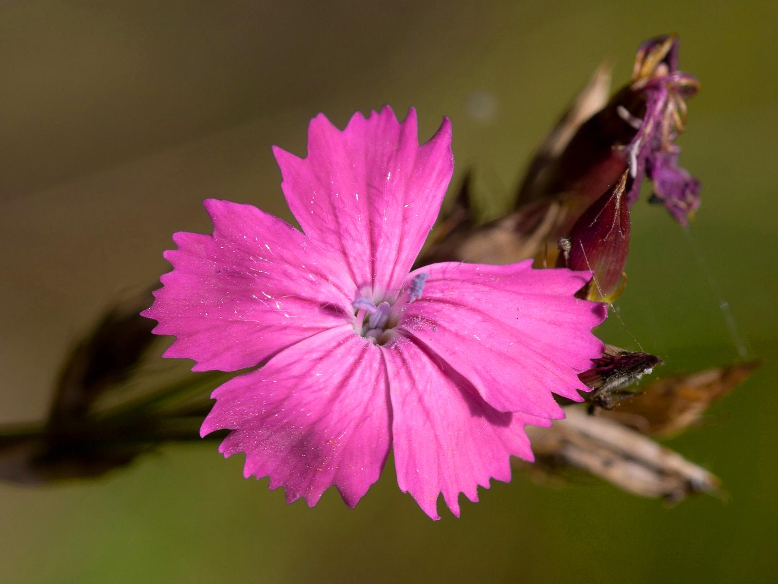 Karthäuser-Nelke (Dianthus carthusianorum)